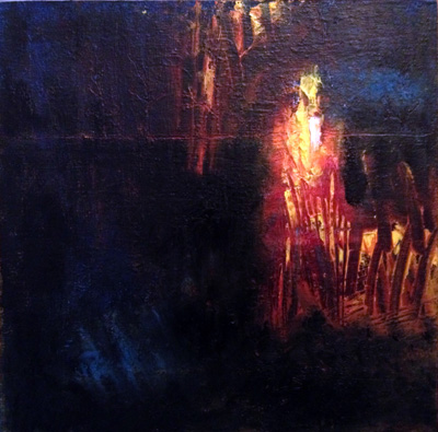 Mixed Media on Board 10" x 10"